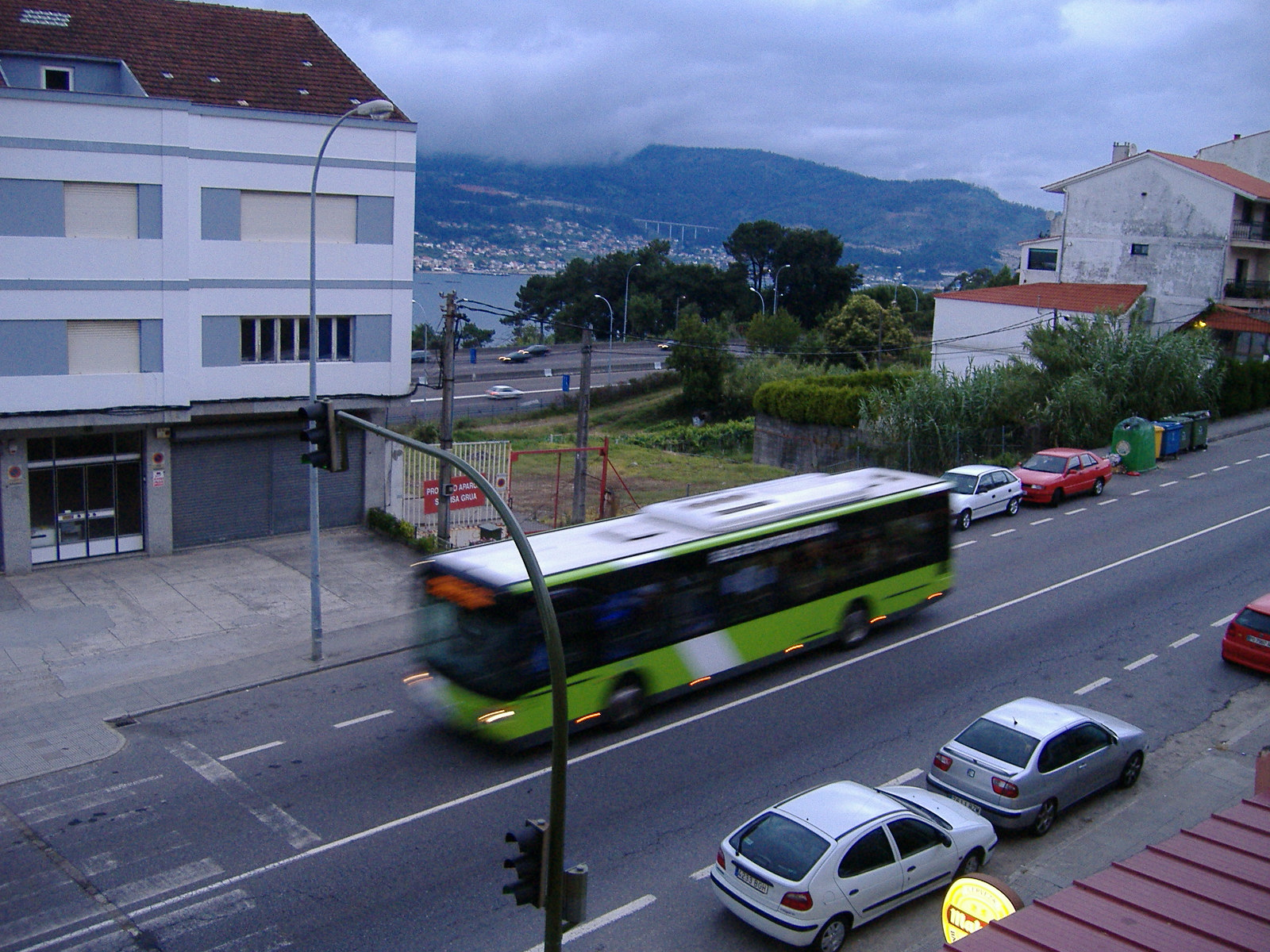 City bus of Vigo, running through the Avenue of Redondela, in Chapela-Redondela.